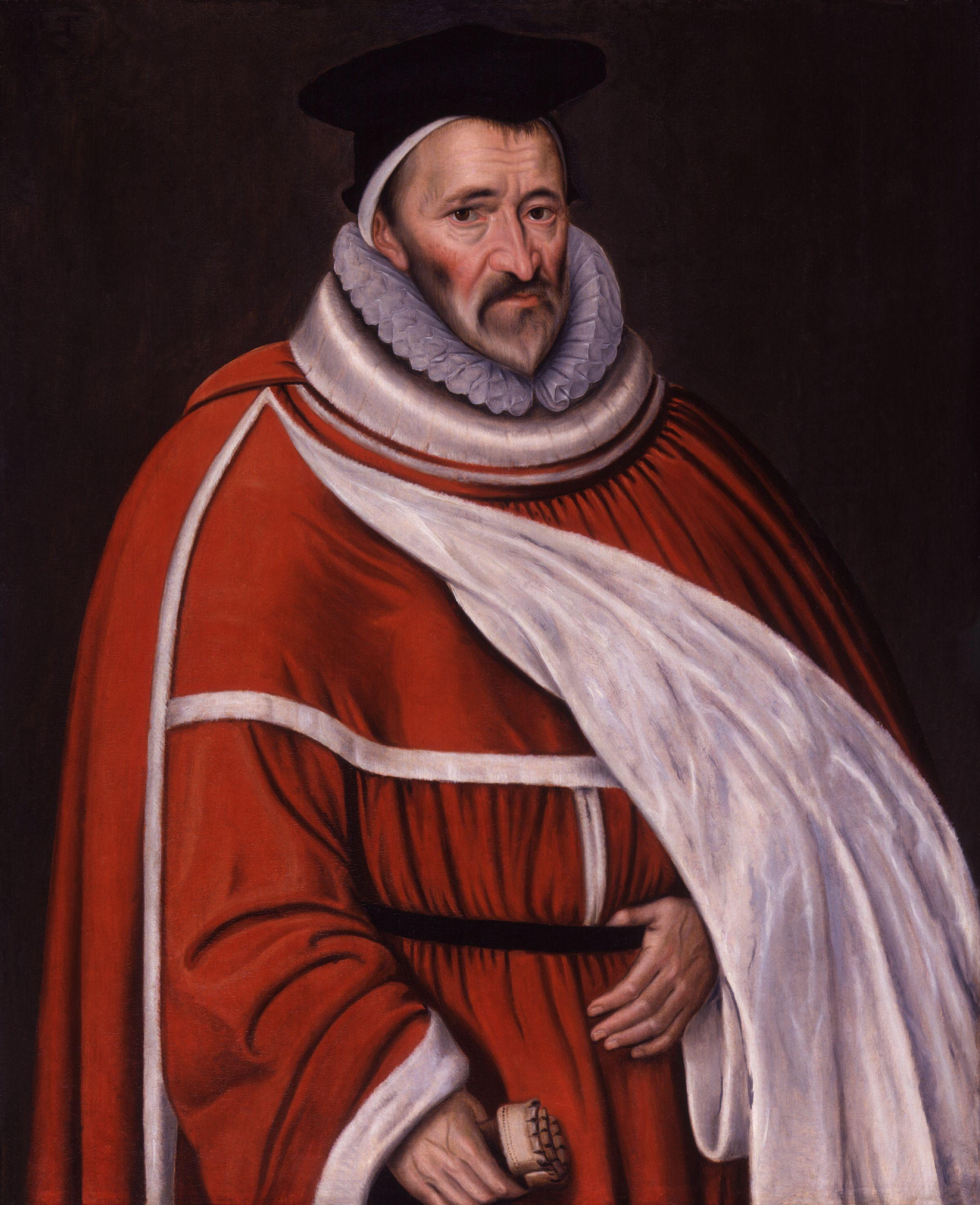 Sir Edmund Anderson, by unknown artist. All images in this batch are listed as "unknown author" by the NPG, who is diligent in researching authors, and was donated to the NPG before 1939 according to their website.